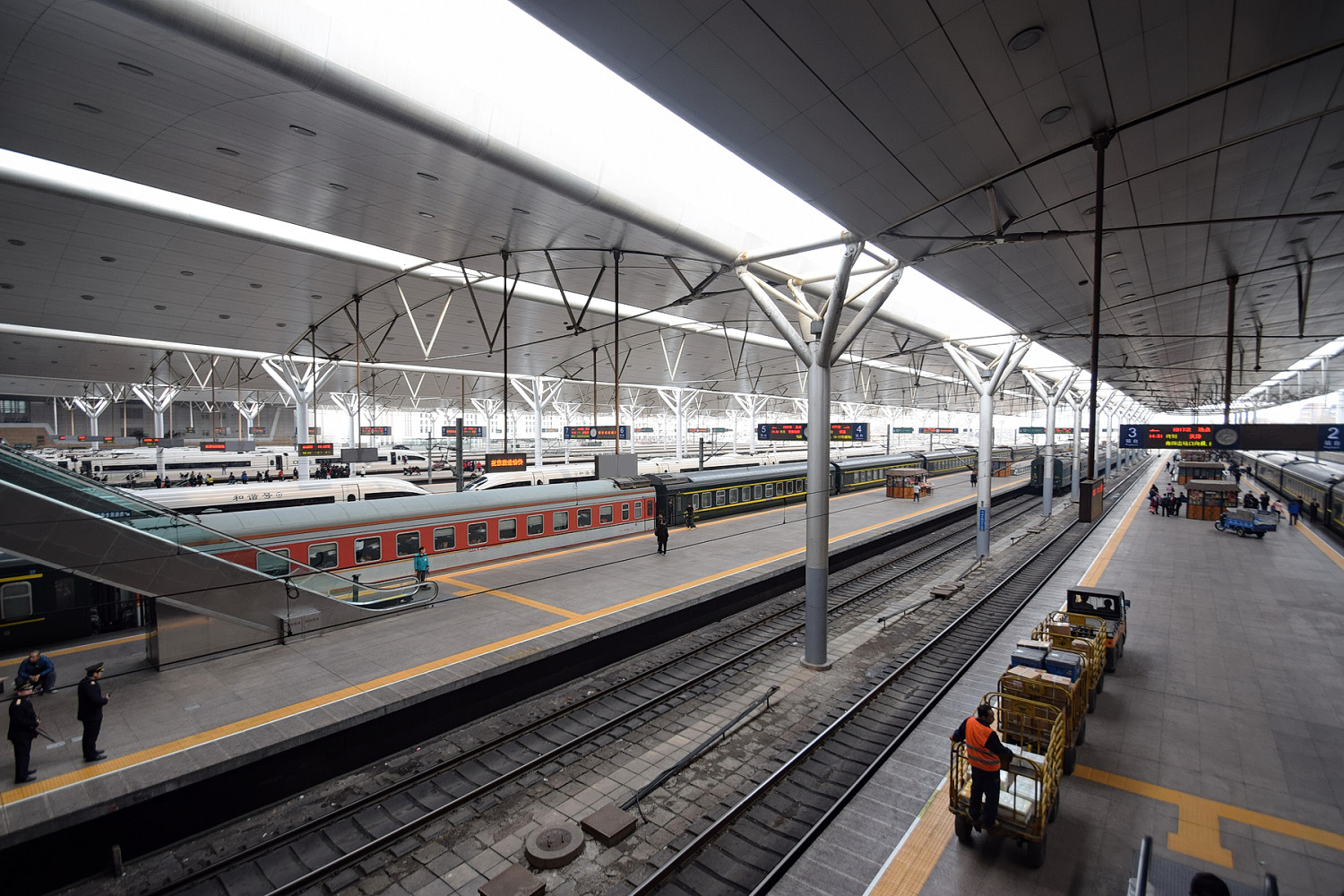 Platforms of Tianjin Railway Station, view towards Zhangguizhuang / Junliangcheng Bei (North) Railway Station